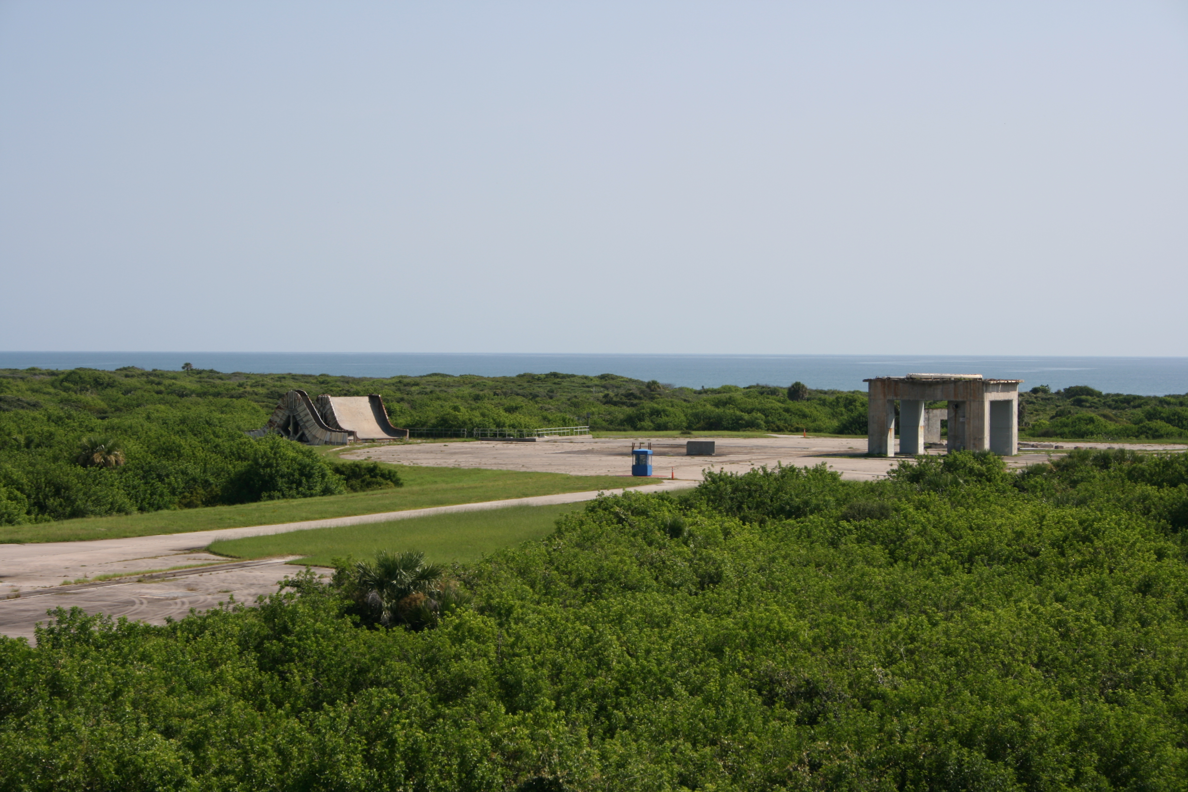 Dismantled Launch Complex 34 at Cape Canaveral Air Force Station.